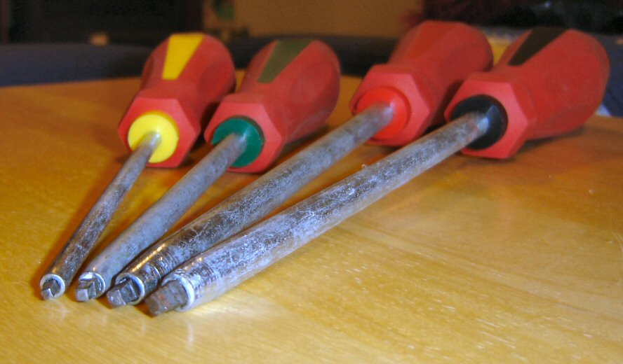 I am the author of this image and I hereby release it into the public domain. It is a close up shot of the various sizes of Robertson head screwdrivers and their colour coding. Matt Deres 22:25, 3 December 2006 (UTC)